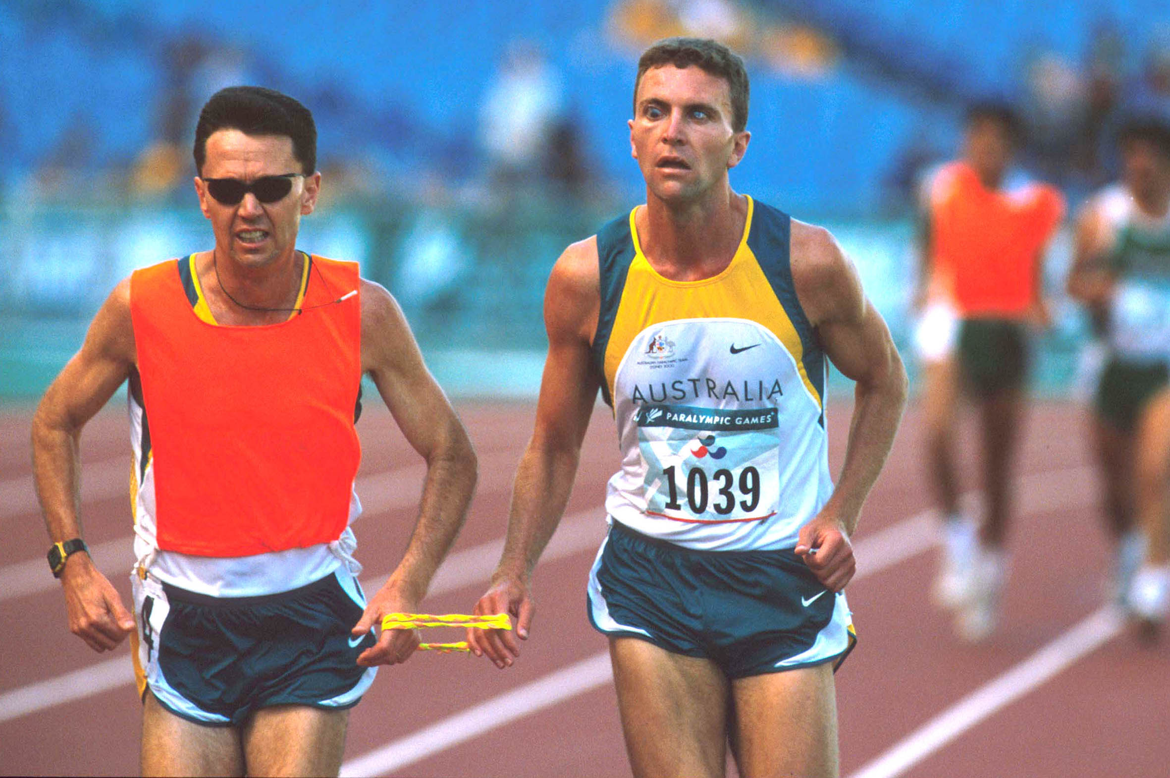 Australian visually impaired track athlete Gerrard Gosens sprints with his guide/lead runner during a race at the 2000 Sydney Paralympic Games